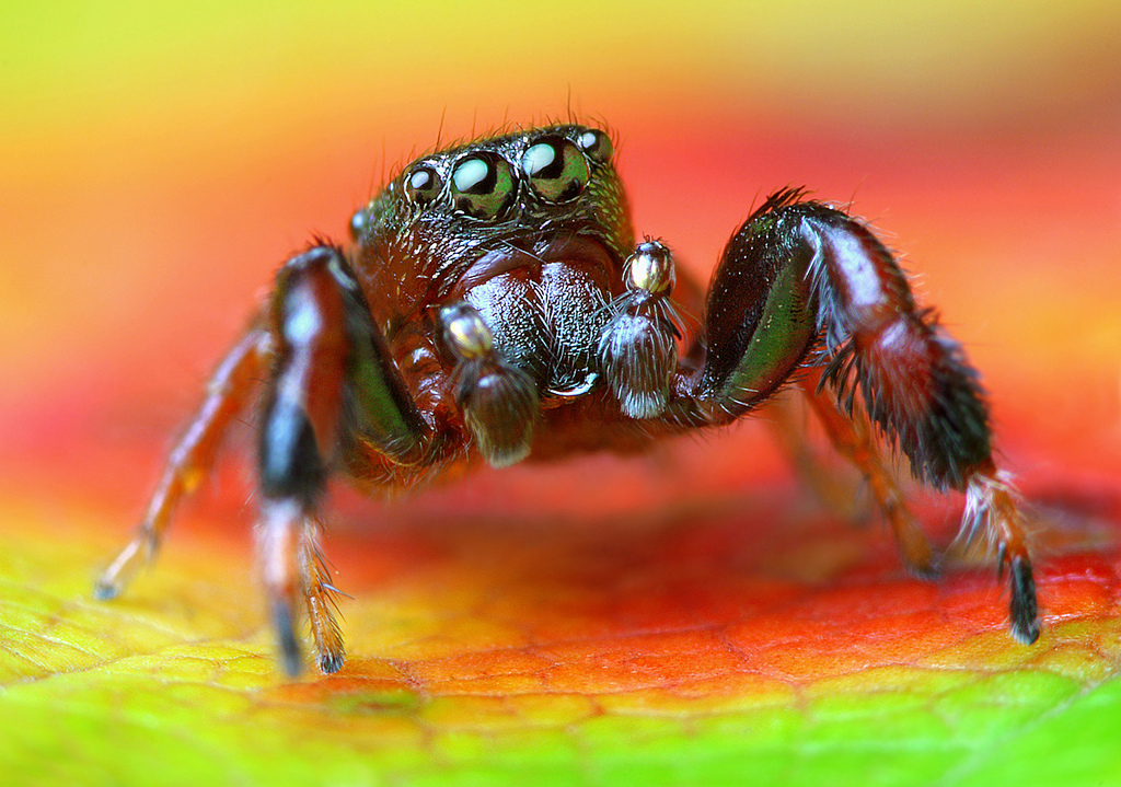 This beautiful jumping spider was found by my cousin in the grandparents garden. When I saw it, I was really amazed, because I have never seen jumping spider which looks like that... Because of my broken lens I was not able to take photos of it, so I kept it about three weeks like a pet. I fed it with small springtails, stinkbugs... And then my lens was repaired, so I was able to take some photographs of this wonderful spider... When I take about 1hundred shots he just jumped away and I said good luck... When I got back home from holiday, I sent this jumping spider photos to Lithuanian arachnologist, which indicated it as a new species in Lithuania. So I was really lucky... I took these photos with CanonEOS40D photo camera + extension tubes + CanonEF100mmMacroUSM lens + Kenko close up filter Please have a view of full size... Thanks :)